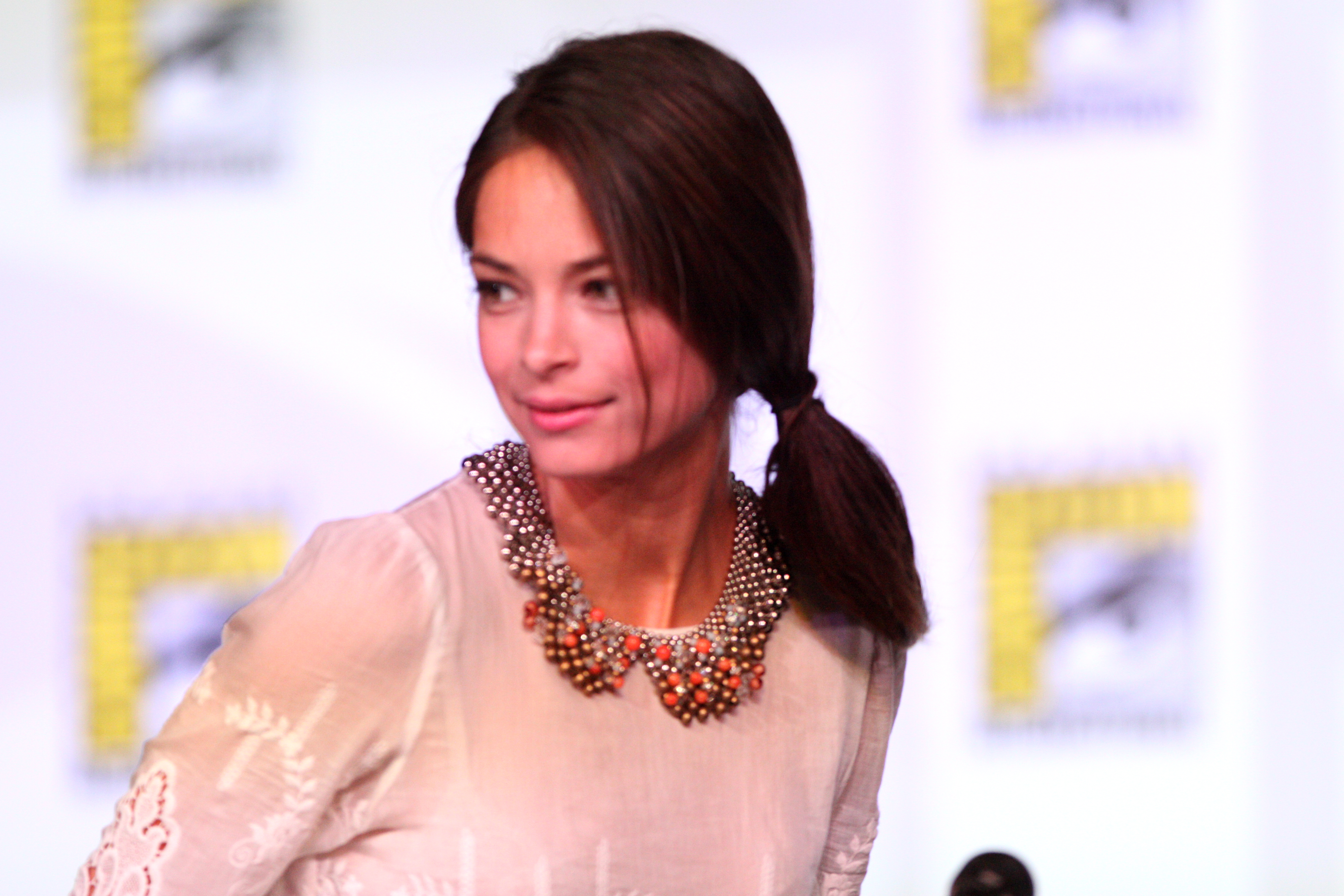 Kristin Kreuk speaking at the 2012 San Diego Comic-Con International in San Diego, California.